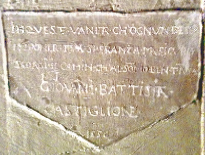 Graffiti carved by Giovanni Battista Castiglione, Italian tutor to Elizabeth I, while he was imprisoned in the Tower of London in 1556. The text reads: "Do not rest your hopes on these vain things that all men desire, but follow the sure road that leads to the highest good."